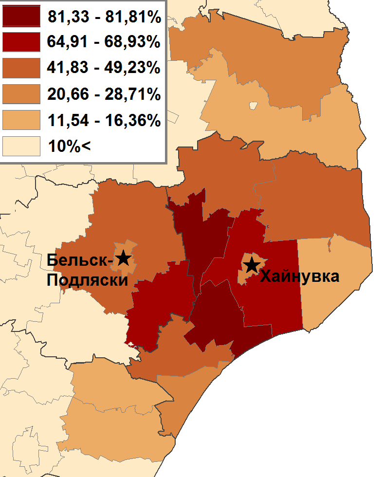 Etnic Belarusians share in NE Poland (2002 Census), Russian version